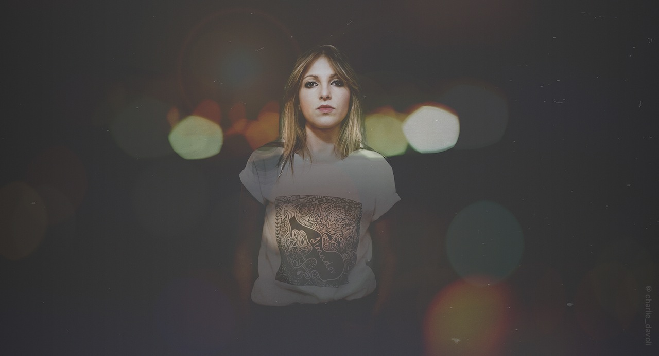 picture of Matilde Davoli a singer songwriter